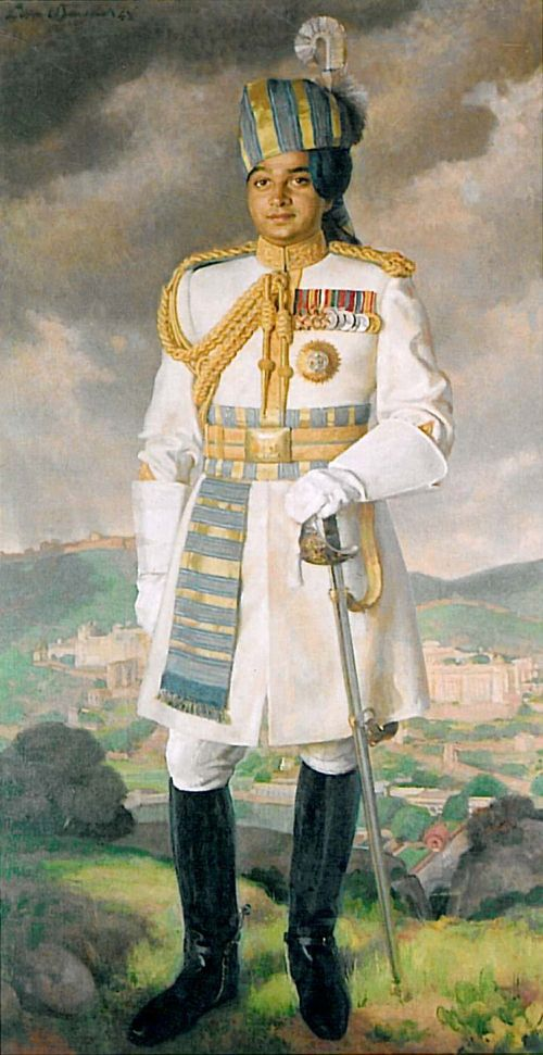 Portrait of Sawai Man Singh II